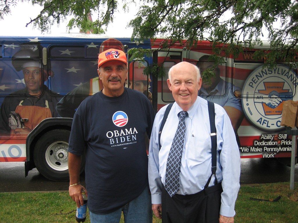 Pennsylvania AFL-CIO President Bill George and National AFL-CIO President John Sweeney in front of the "Billy Bus" at an International Brotherhood of Electrical Workers event in Erie, Pennsylvania.